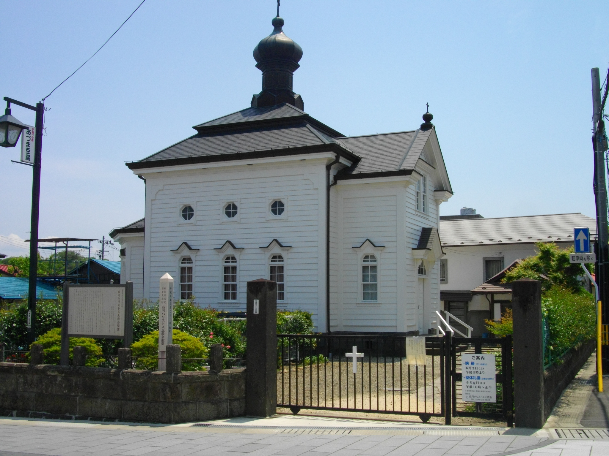 Shirakawa Orthodox Church